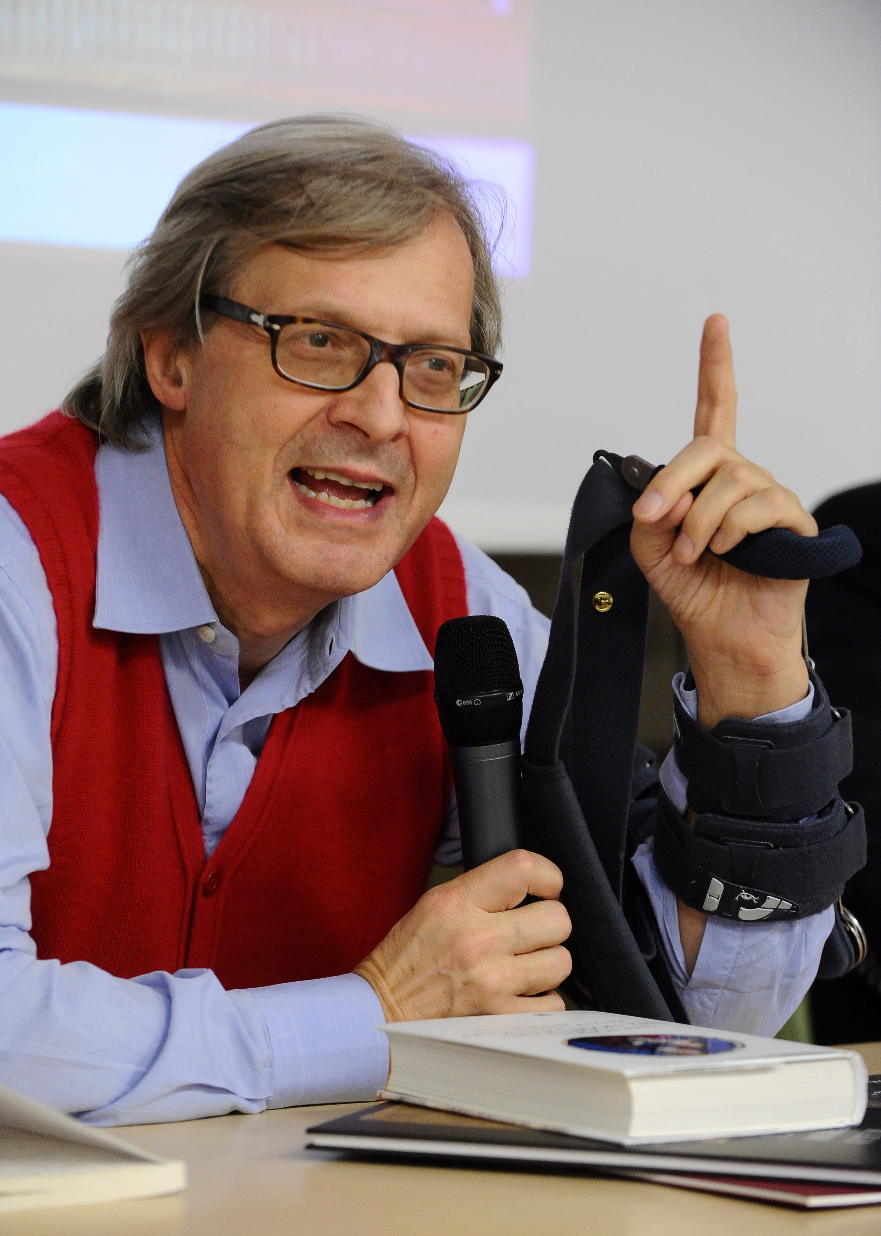 Vittorio Sgarbi in Riva del Garda.